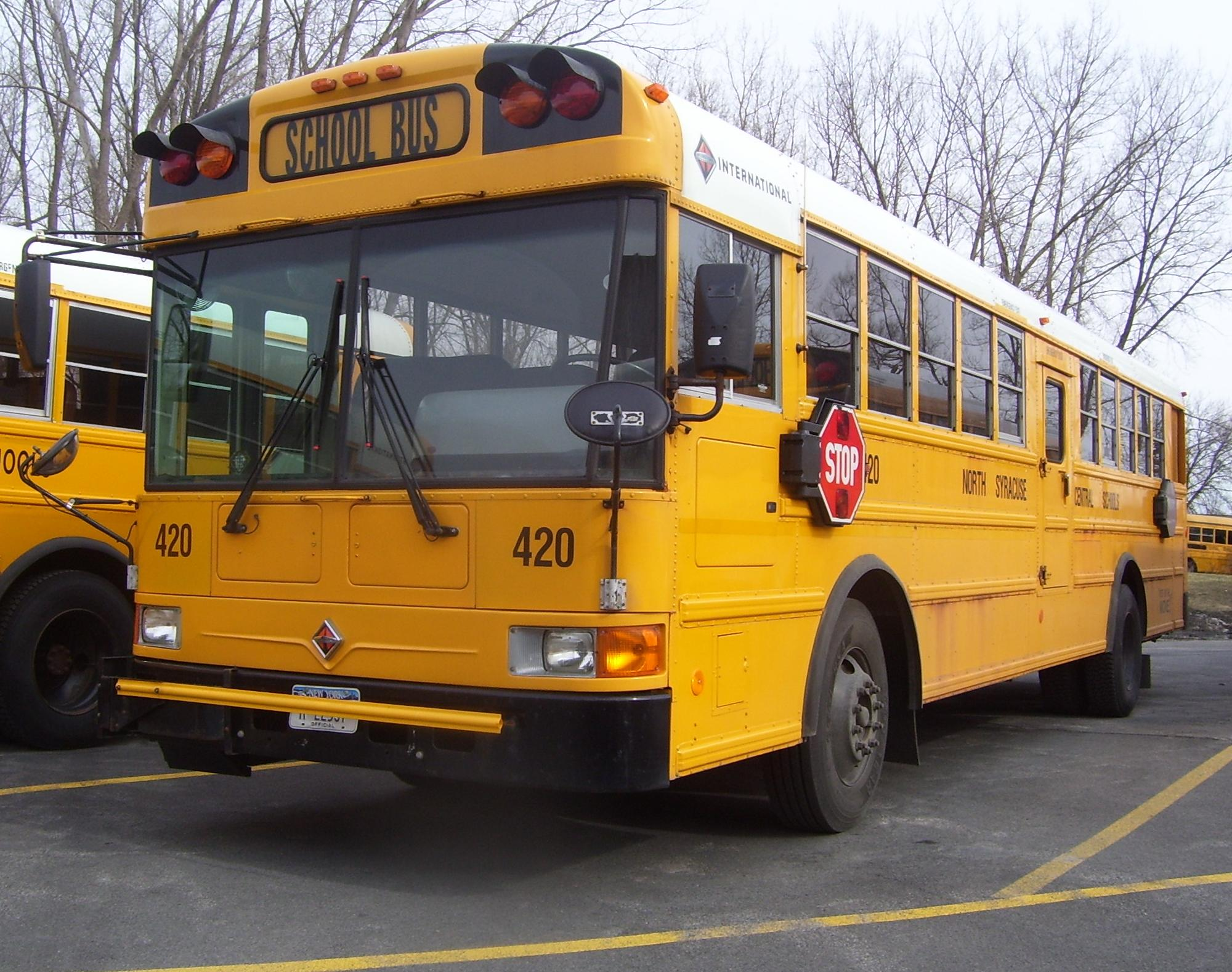 A 2002 International RE T444E School Bus #420 ; North Syracuse School Buses ; From New York